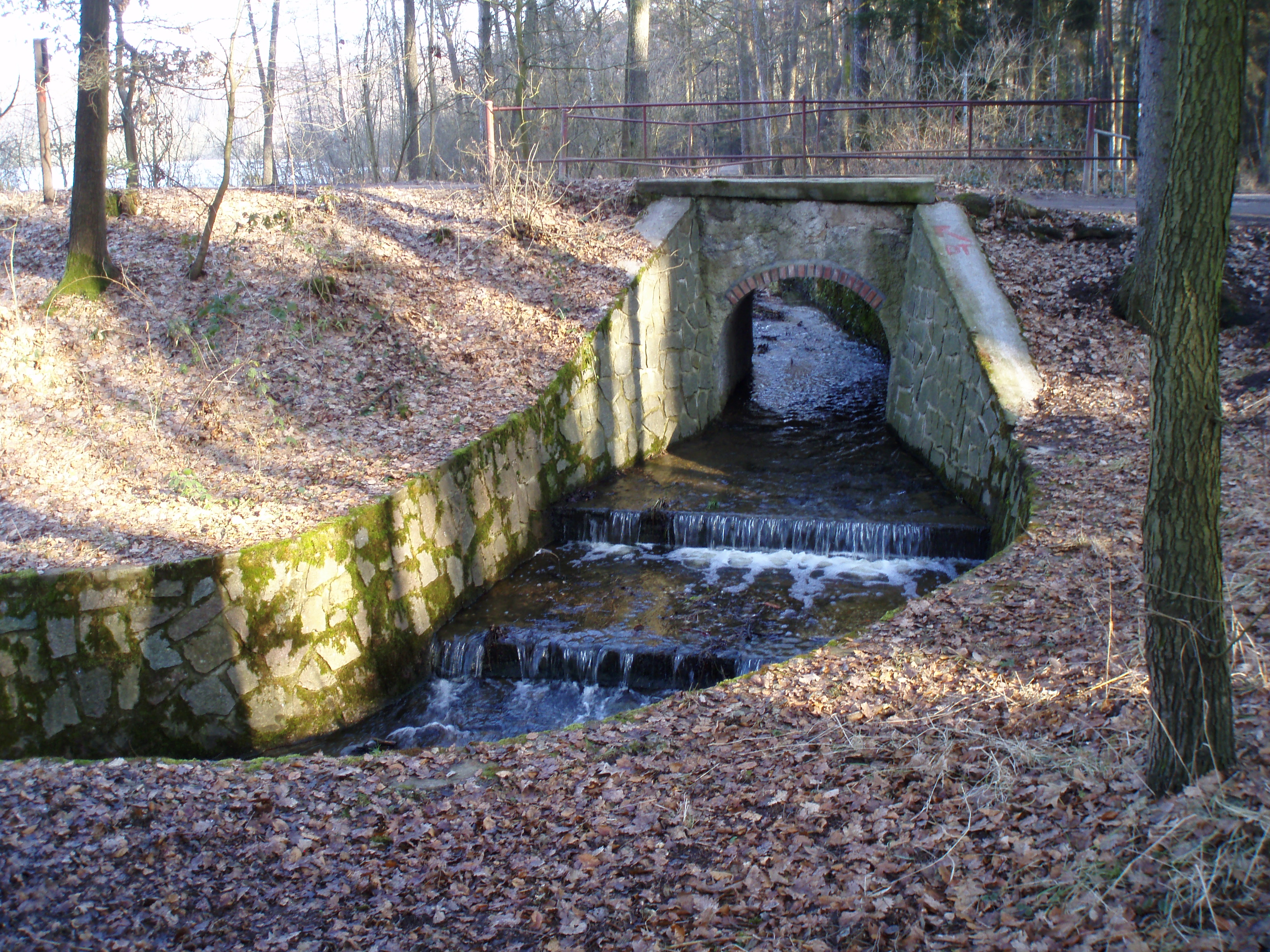 Stream Biřička in Hradec Králové (Czechia)